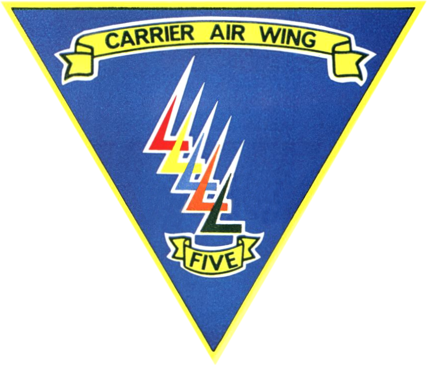 Insignia of the U.S. Navy Carrier Air Wing 5 (CVW-5), in 1991. Note: this insignia was used at least since 1960 and is still in use in 2020.